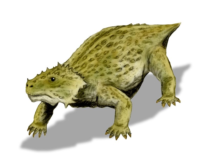 Nanoparia pricei, a pareiasaur from the Late Permian of South Africa pencil drawing, digital coloring